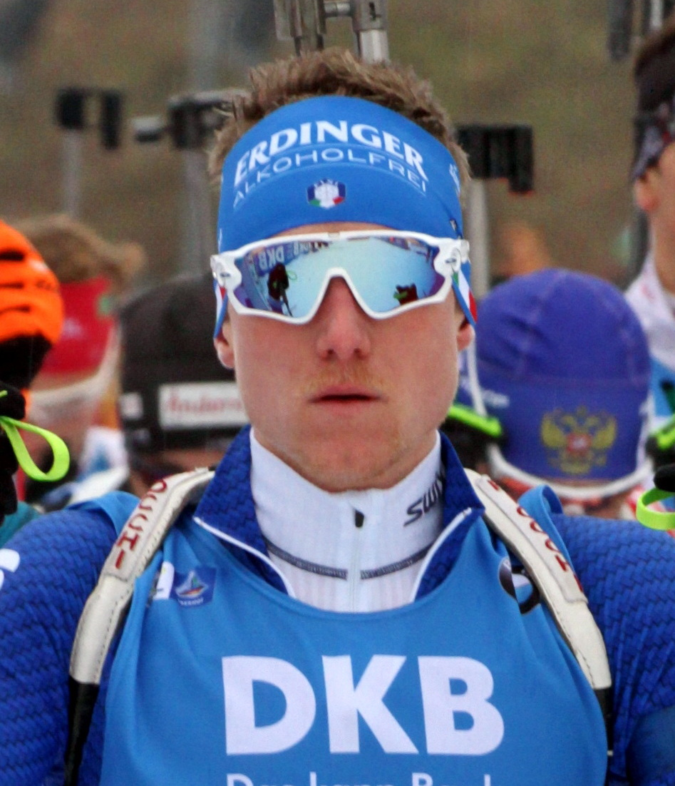 2018 Oberhof Biathlon World Cup - Pursuit Men